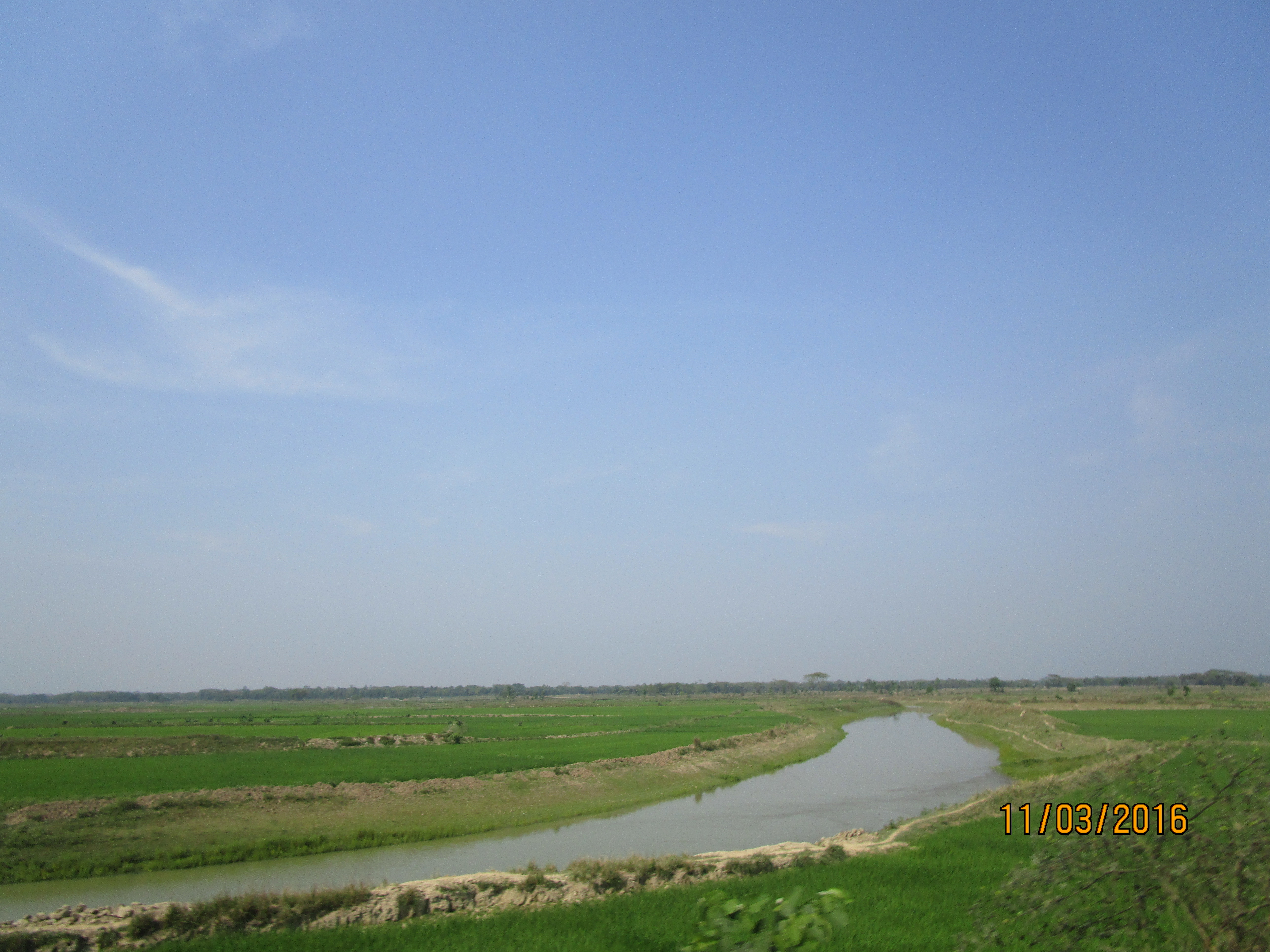 Khiro River near Kashiganj Bazar, Trishal